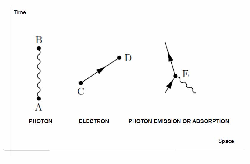 Basic rules of QED for Feynman diagrams